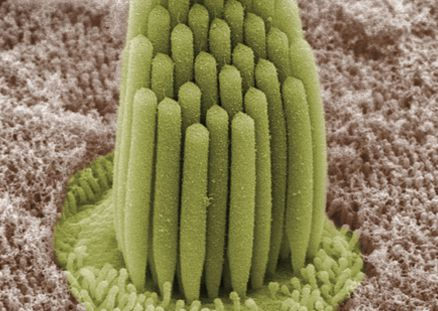 High-resolution micrograph of beautifully delicate, staircase-shaped structures of the inner ear, called stereocilia, has graced the covers of many high-profile scientific journals. Stereocilia are miniscule hair-like protrusions on the surface of sensory cells (also called hair cells) found deep within the cochlear and labyrinth structures of the inner ear. They serve as the key mechanosensors, responding to fluid motion for various functions, including hearing and balance. Emphasizing how sensitive these structures are, Kachar describes being able to hear a pin drop from across a room: the sound wave from the pin dropping produces an increase in pressure within the fluid contained in the inner ear, resulting in a shear force that presses the stereocilia against each other. The stereocilia then convert this mechanical movement into electrical signals, which are sent to the brain—all within a matter of milliseconds